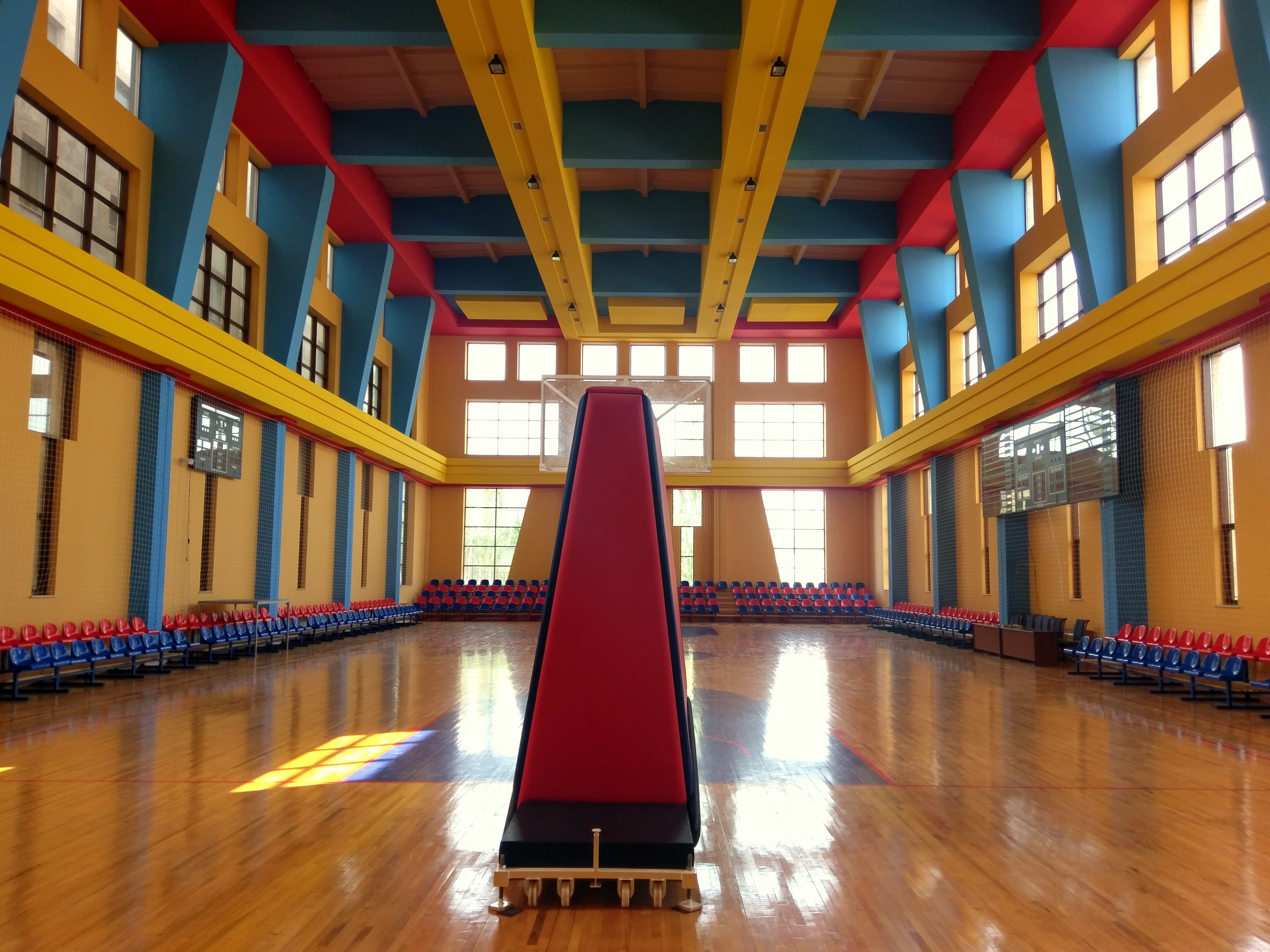 Olympavan